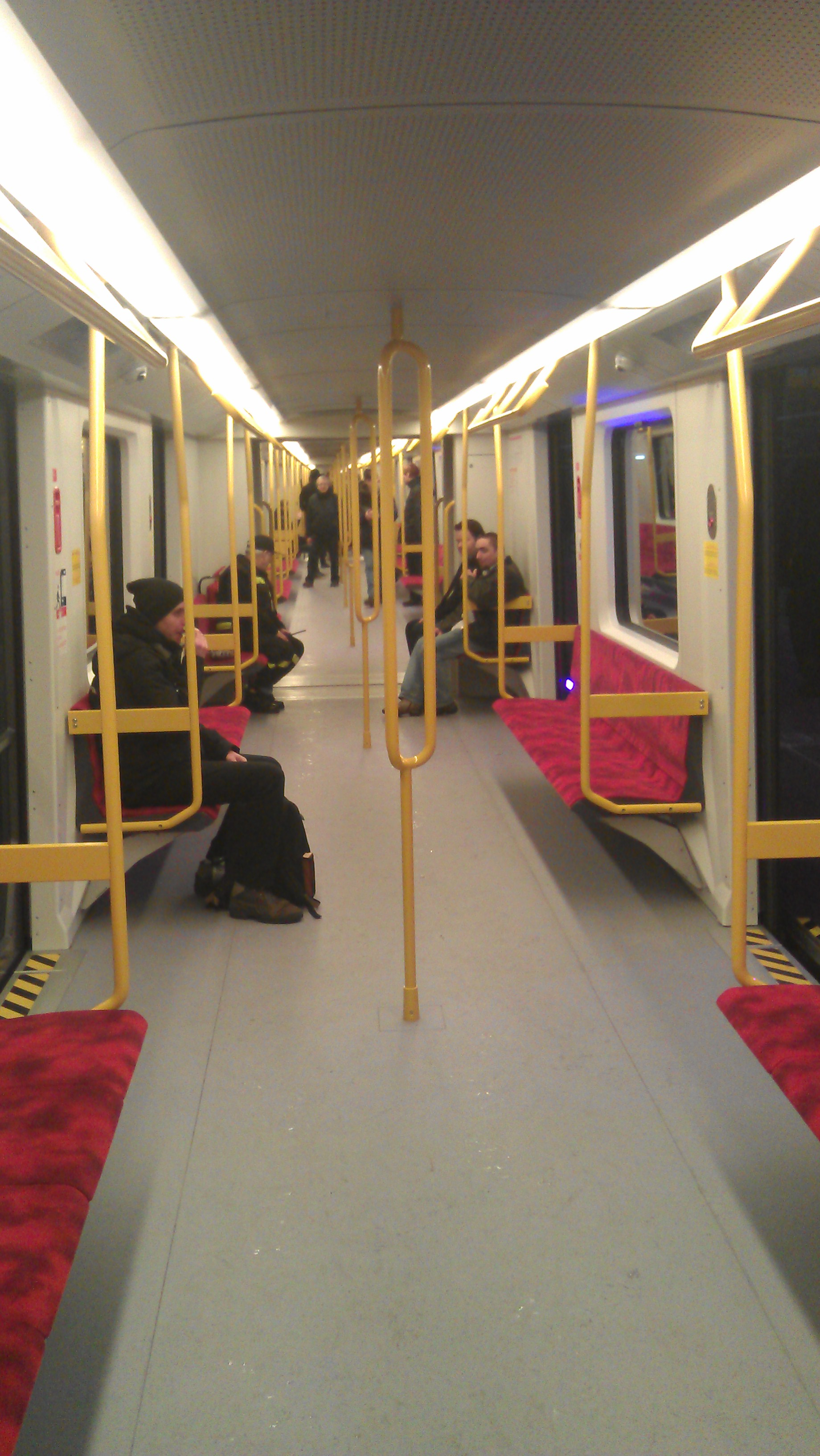 Siemens Inspiro Train in Warsaw